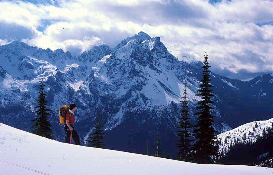 A snowshoer on the Putvin Trail in the Mount Skokomish Wilderness in Washington state. Mount Pershing is in the background.